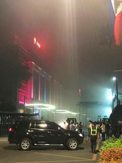 Resorts World Manila right after shooting